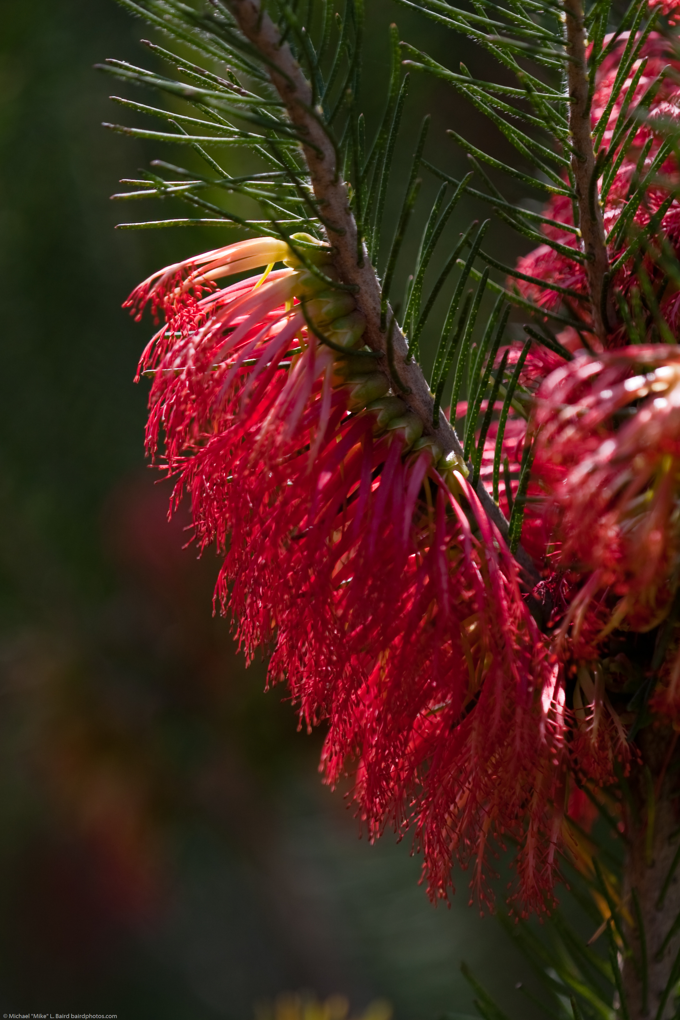 One-sided Bottlebrush, Net Bush (flowering shrub), Calothamnus quadrifidus, Myrtaceae, from Western Australia Photographed as part of the Digital Photo Walk led by Teddy Llovet and Pat Brown at the San Luis Obispo Botanical Garden in El Chorro Regional Park - San Luis Obispo County, California. 28 May 2009 - Spring - (1 of 2 photos). Photo by Michael "Mike" L. Baird, mike at mikebaird d o t com, , Canon 1D Mark III, 180mm Macro lens, tripod.